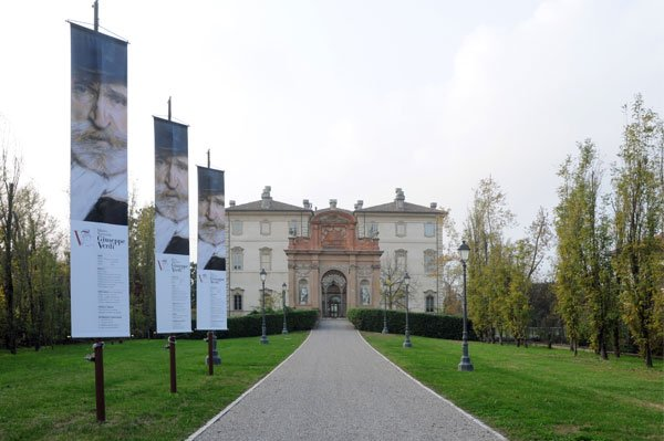 Giuseppe Verdi National Museum entrance, Villa Pallavicino in Busseto (Italy)